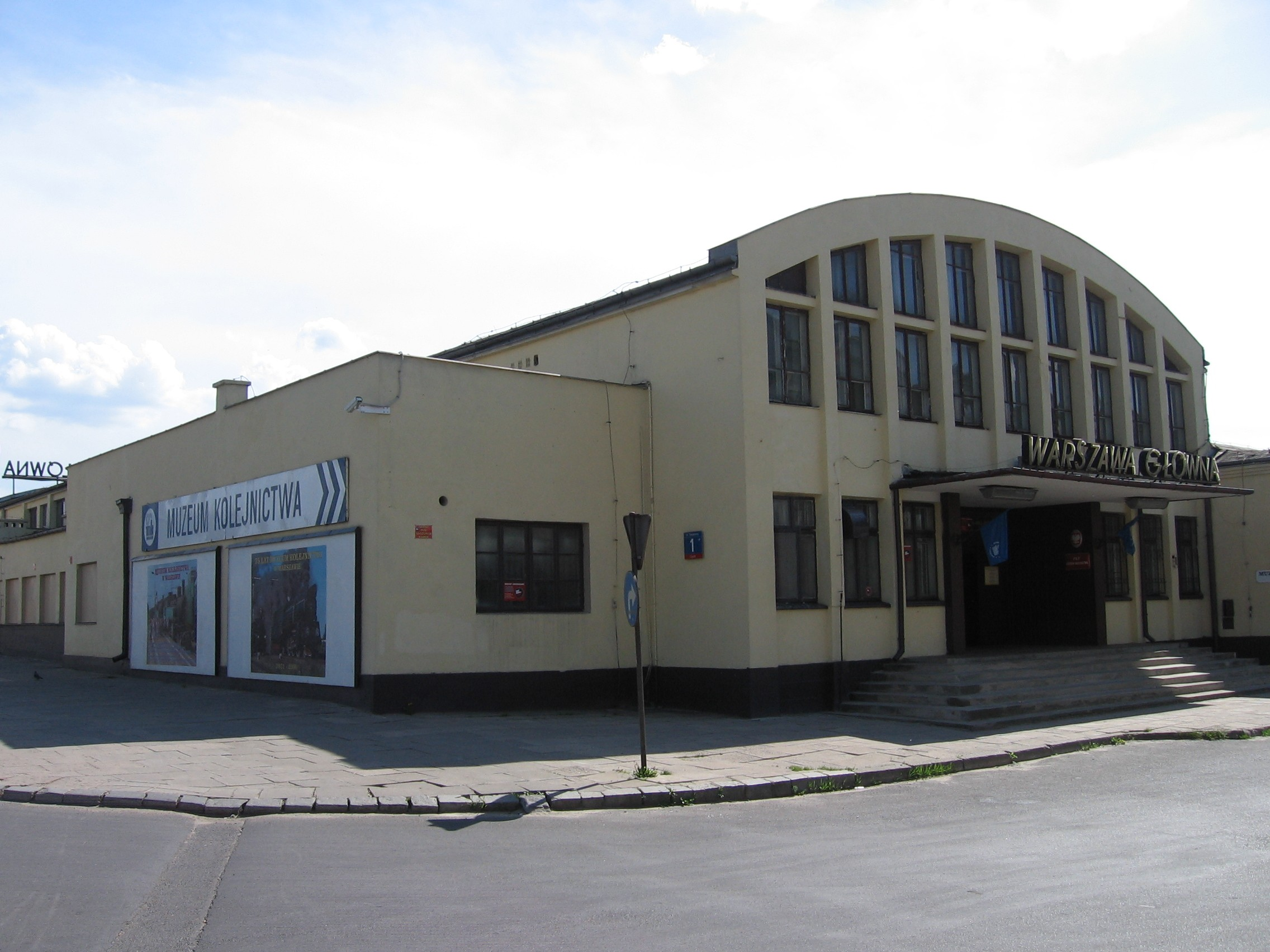 Former Warsaw Main station, currently Railway Museum in Warsaw, Poland